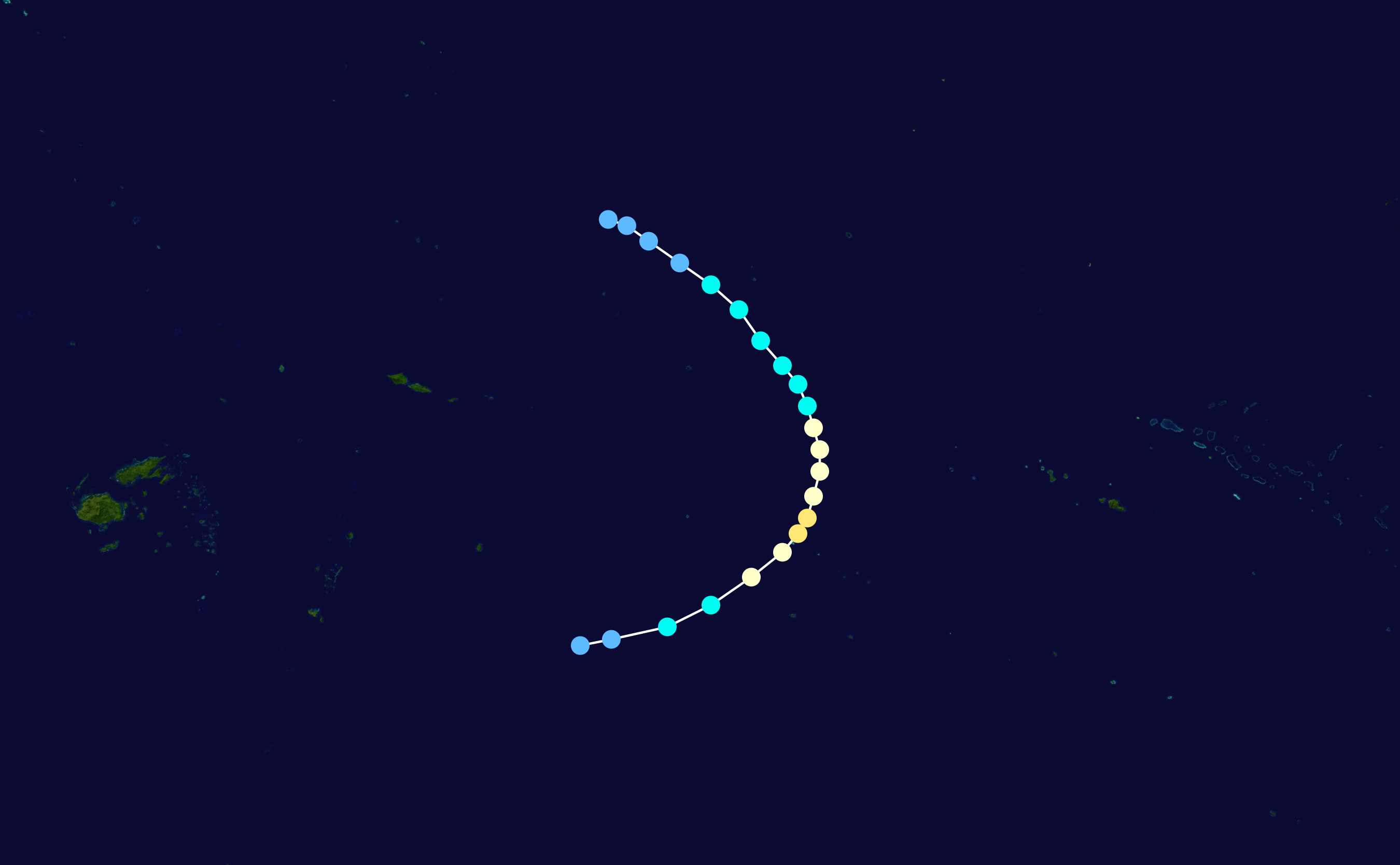 Track map of Severe Tropical Cyclone Pat of the 2009-10 South Pacific cyclone season. The points show the location of the storm at 6-hour intervals. The colour represents the storm's maximum sustained wind speeds as classified in the Saffir–Simpson scale (see below), and the shape of the data points represent the nature of the storm, according to the legend below. Saffir–Simpson scale Tropical depression≤38 mph≤62 km/h Category 3111–129 mph178–208 km/h Tropical storm39–73 mph63–118 km/h Category 4130–156 mph209–251 km/h Category 174–95 mph119–153 km/h Category 5≥157 mph≥252 km/h Category 296–110 mph154–177 km/h Unknown Storm type Tropical cyclone Subtropical cyclone Extratropical cyclone / Remnant low / Tropical disturbance / Monsoon depression